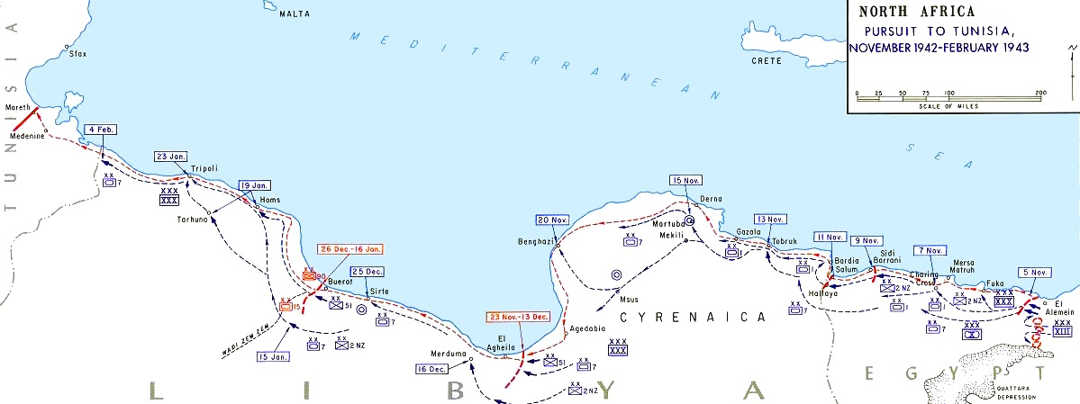 Montgomery's Allied offense -- November en:1942 - February en:1943